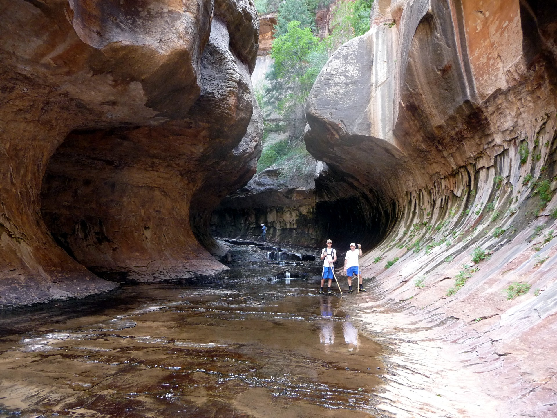 The Subway, Zion National Park, Utah View from the entrance. Image white balanced improved and scaled with Gimp. Original available on request.